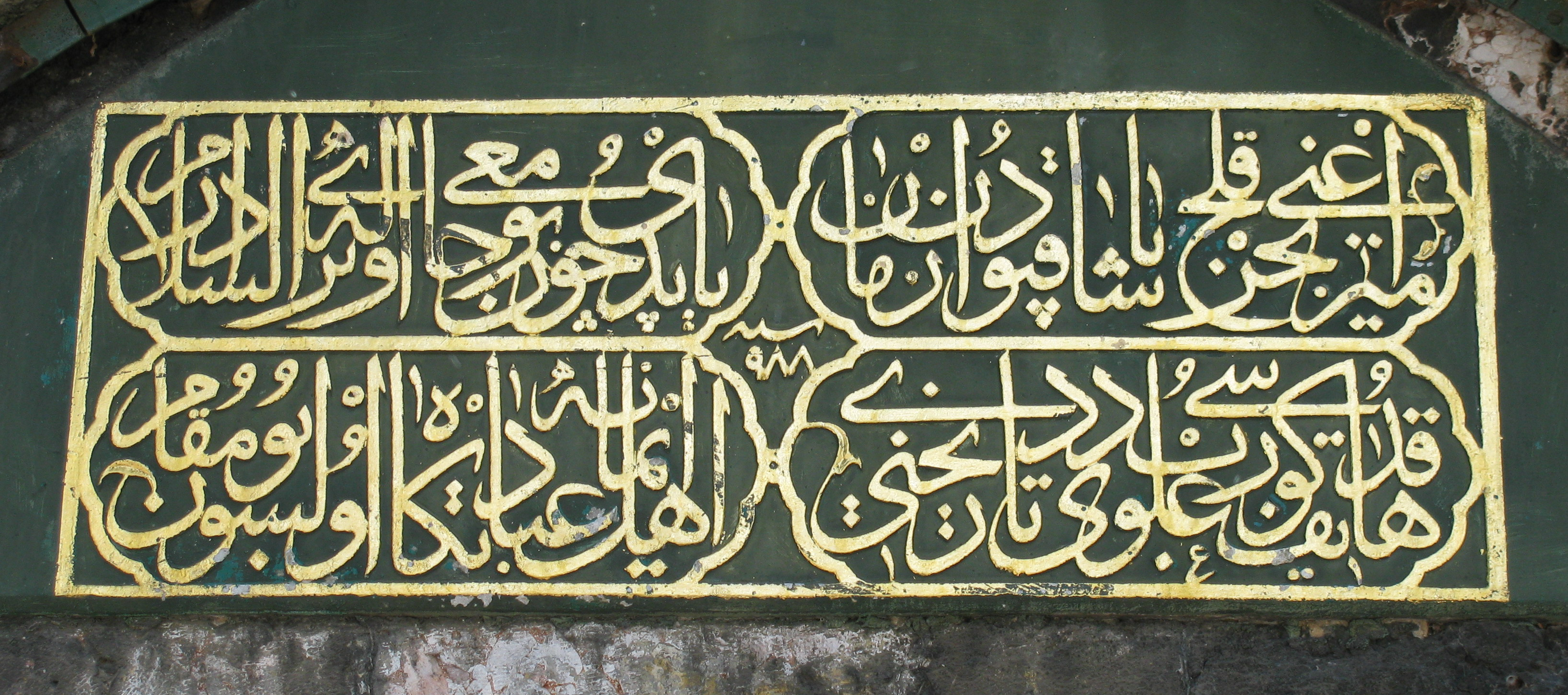 Photograph of the calligraphic chronogram at the Kilic Ali Pasha mosque in Tophane, Istanbul (M.U. Derman).